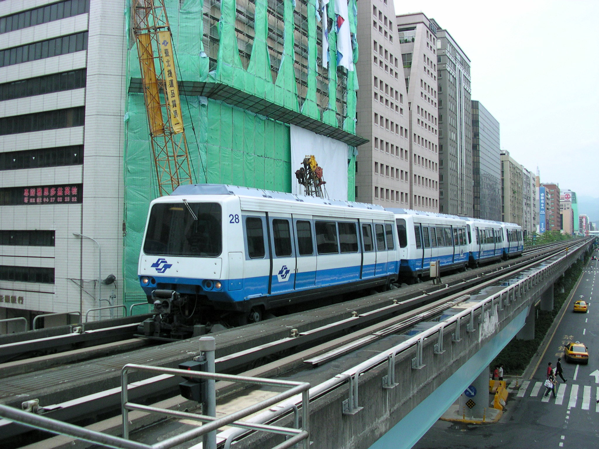 Taipei MRT Train. Car type: VAL256. Vehicle No.:28. Photographed at Taipei MRT Daan Station.